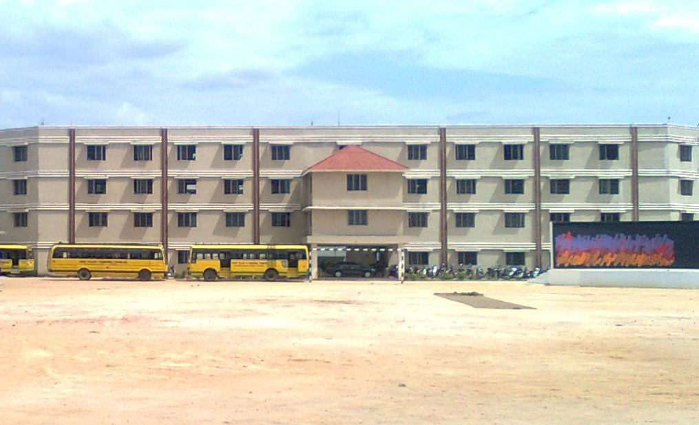 my college Other information pavalan cse